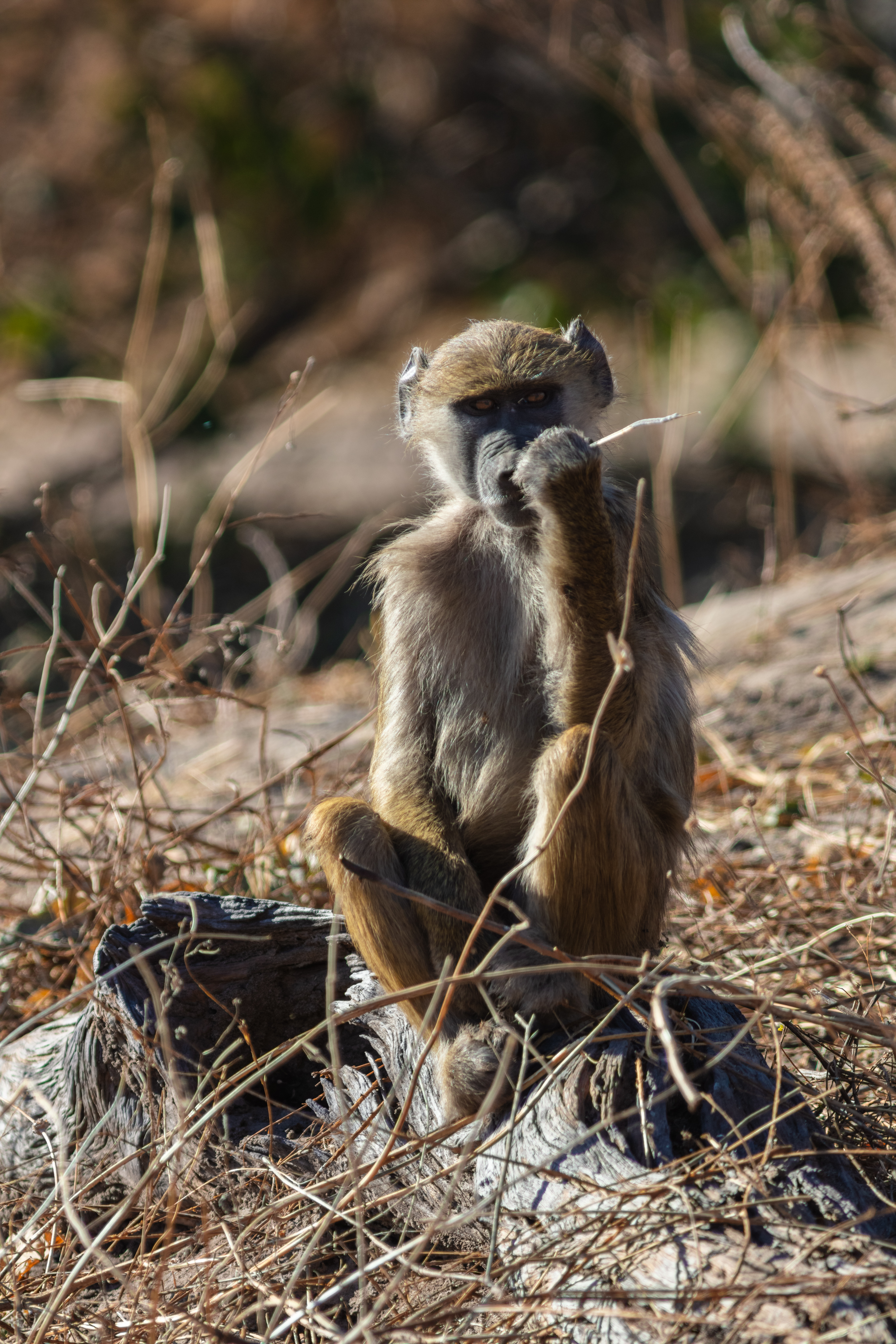 Chacma baboon (Papio ursinus), Chobe National Park, Botswana